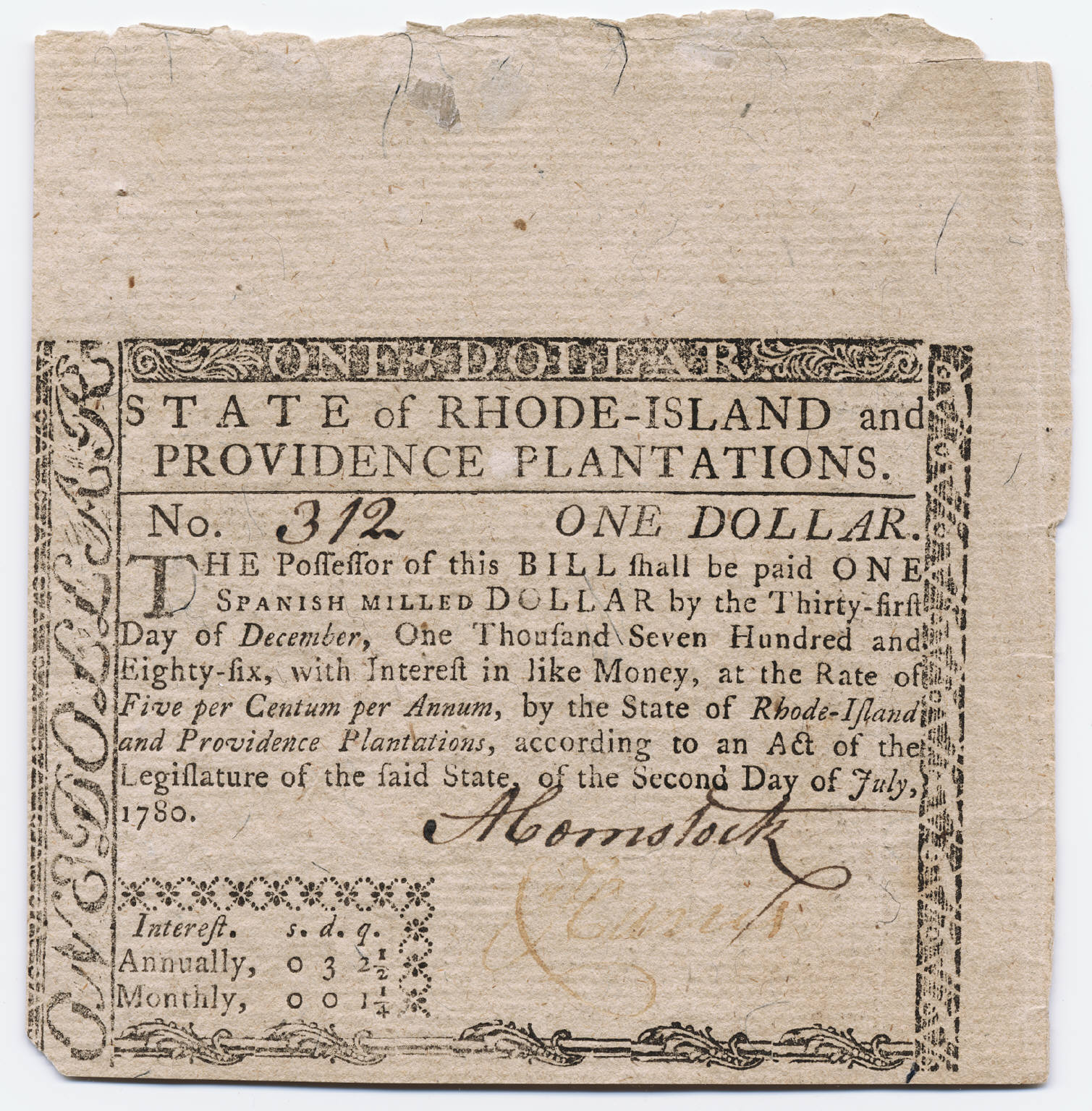 "One Dollar. No. 312. State of Rhode Isand and Providence Plantations. The Possesor of this Bill shall be paid One Spanish milled Dollar by the Thirty-first Day of December, One Thousand Seven Hundred and Eighty- Six, with Interest in like Money, at the Rate of Five per Centum per Annum," paper, 9.5 cm x 10 cm. Printed by Hall and Sellers, printers. General Collection, Beinecke Rare Book and Manuscript Library, Yale University, New Haven, Connecticut.